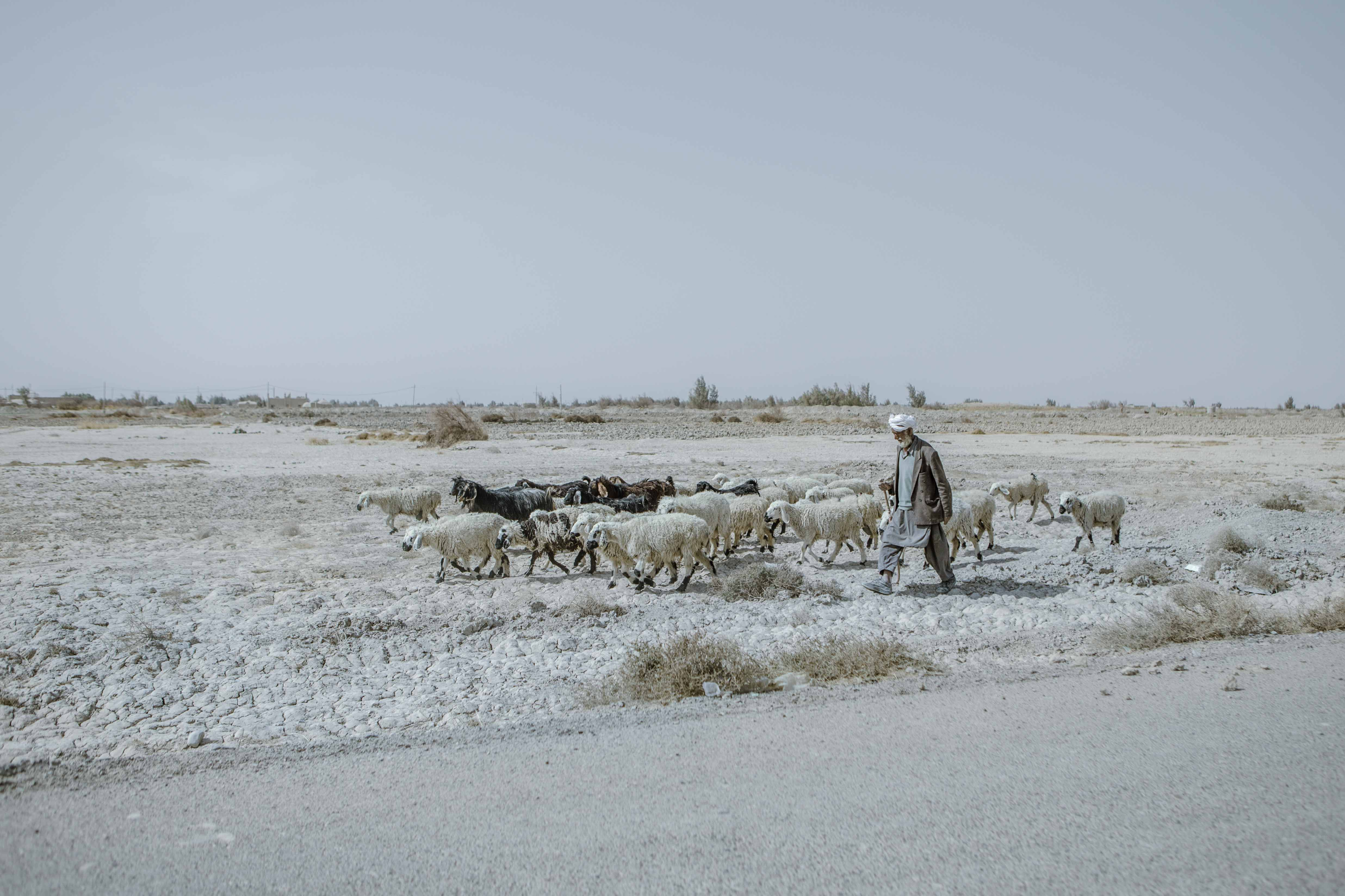 Due to limited water resources and with no diversity in the economy among people who depend on agriculture, drought, poverty, unemployment and addiction has spread through the region. Helmand-Zabol Road.Sistan and Balouchestan Province.Iran.2018